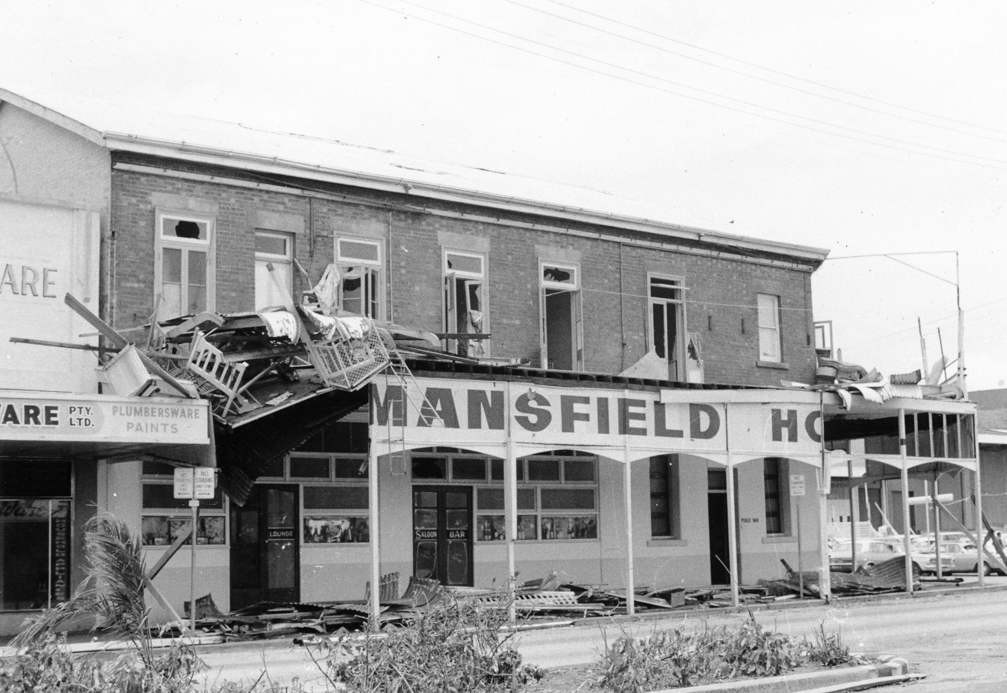 Damage to the Mansfield Hotel by Cyclone Althea, 1971 Cyclone althea/540009566